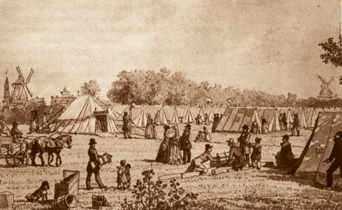 A tent camp outside Vesterport /where Axeltorv is today) during the 1853 Copenhagen cholera outbreak.